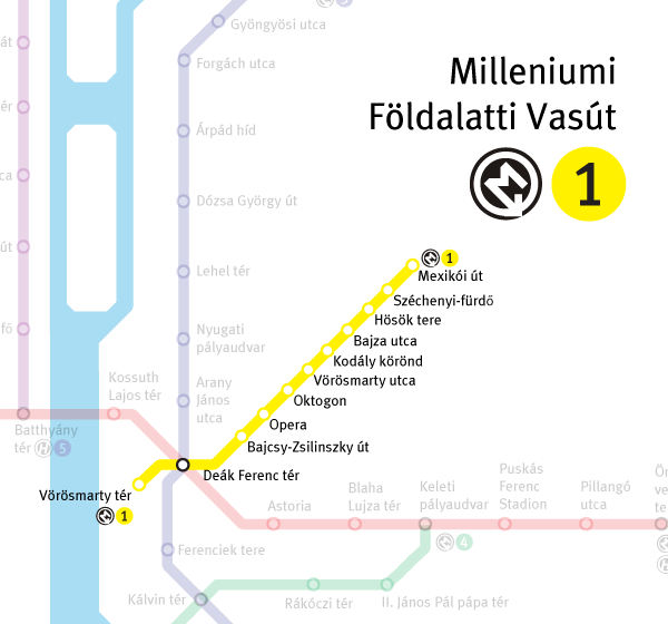 Map of line 1 (alson known as the Millenium Underground) of the Budapest metro network.